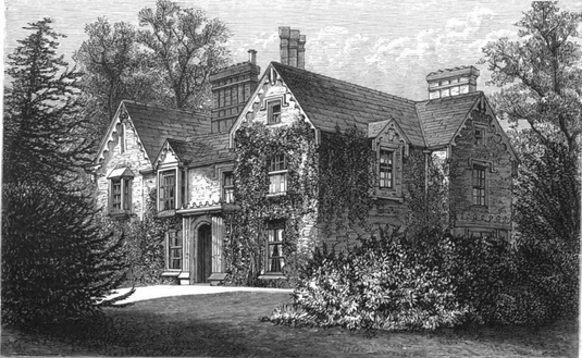 Anne Mackenzie's home, Woodfield, in Havant; from an 1878 publication.